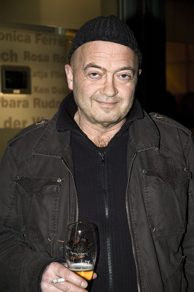 Florian Martens, son of actor Wolgang Kieling